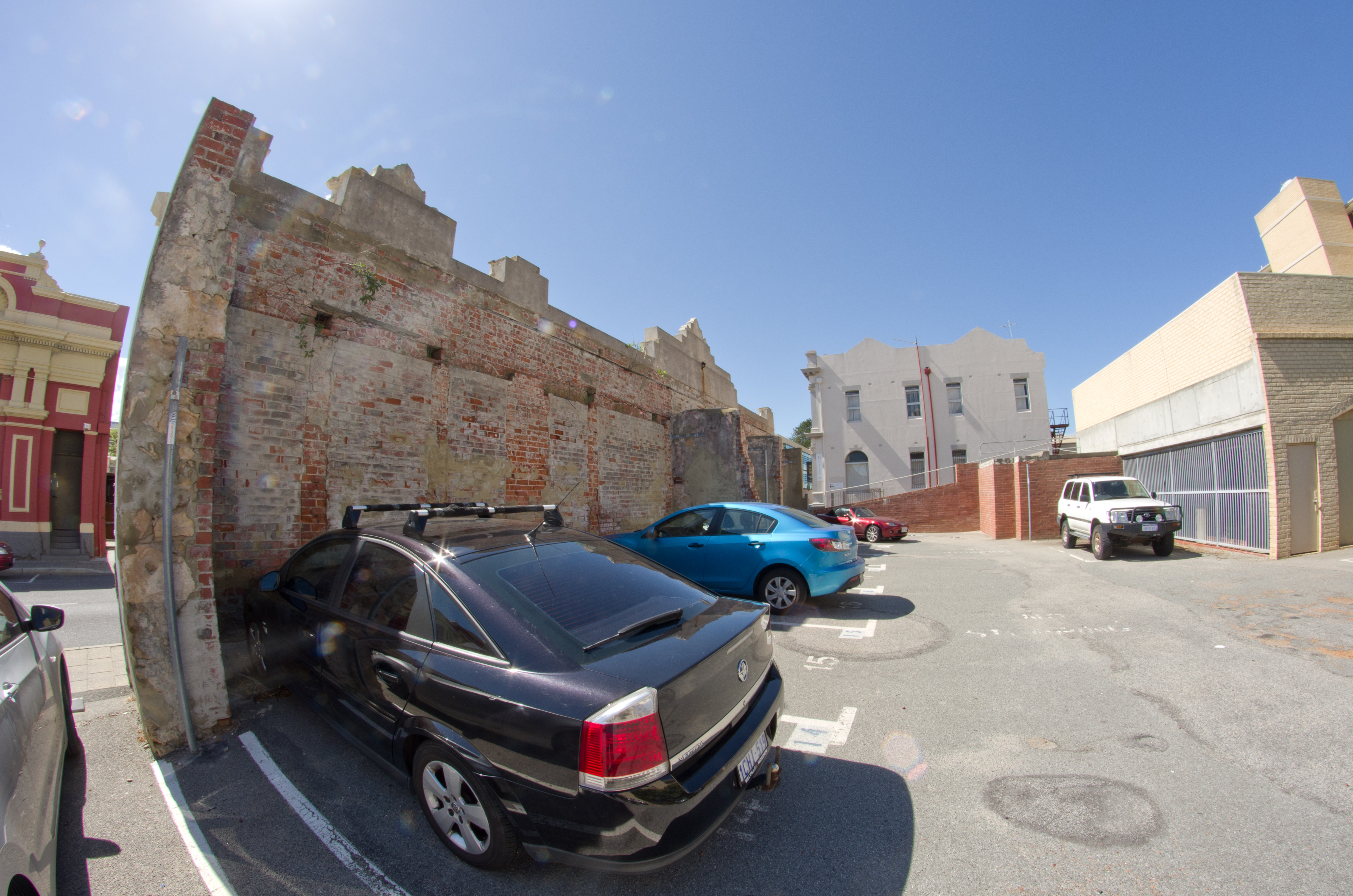 Taken for articles needing images relating to Freopedia's assistance with the Piccolo Exhibition at the Moores Building Oct-Nov 2013 rear of the Reckitt & Coleman Facade cliff street Fremantle